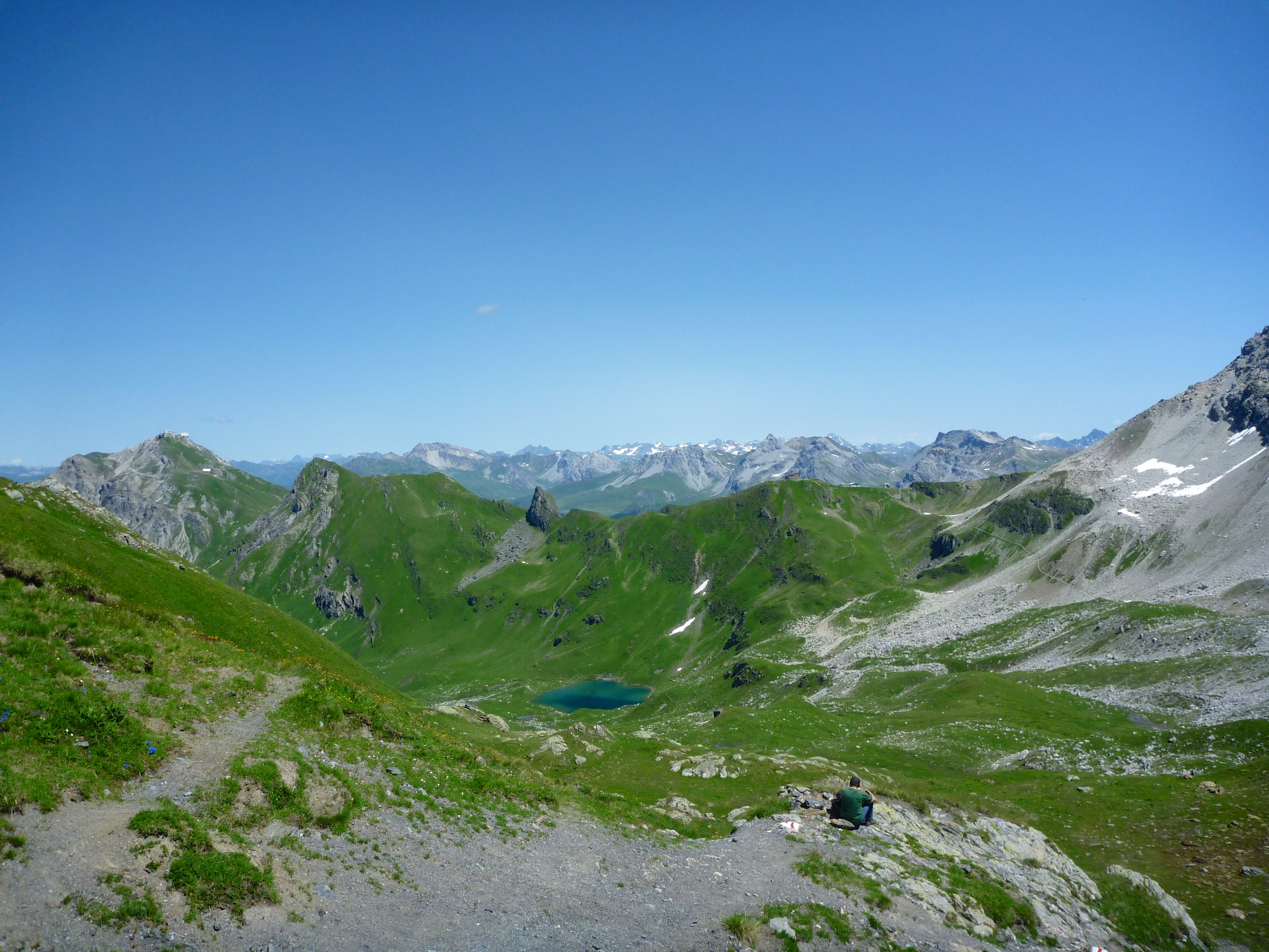 view from Urdenfürggli to Urdensee and Hörnli/Arosa